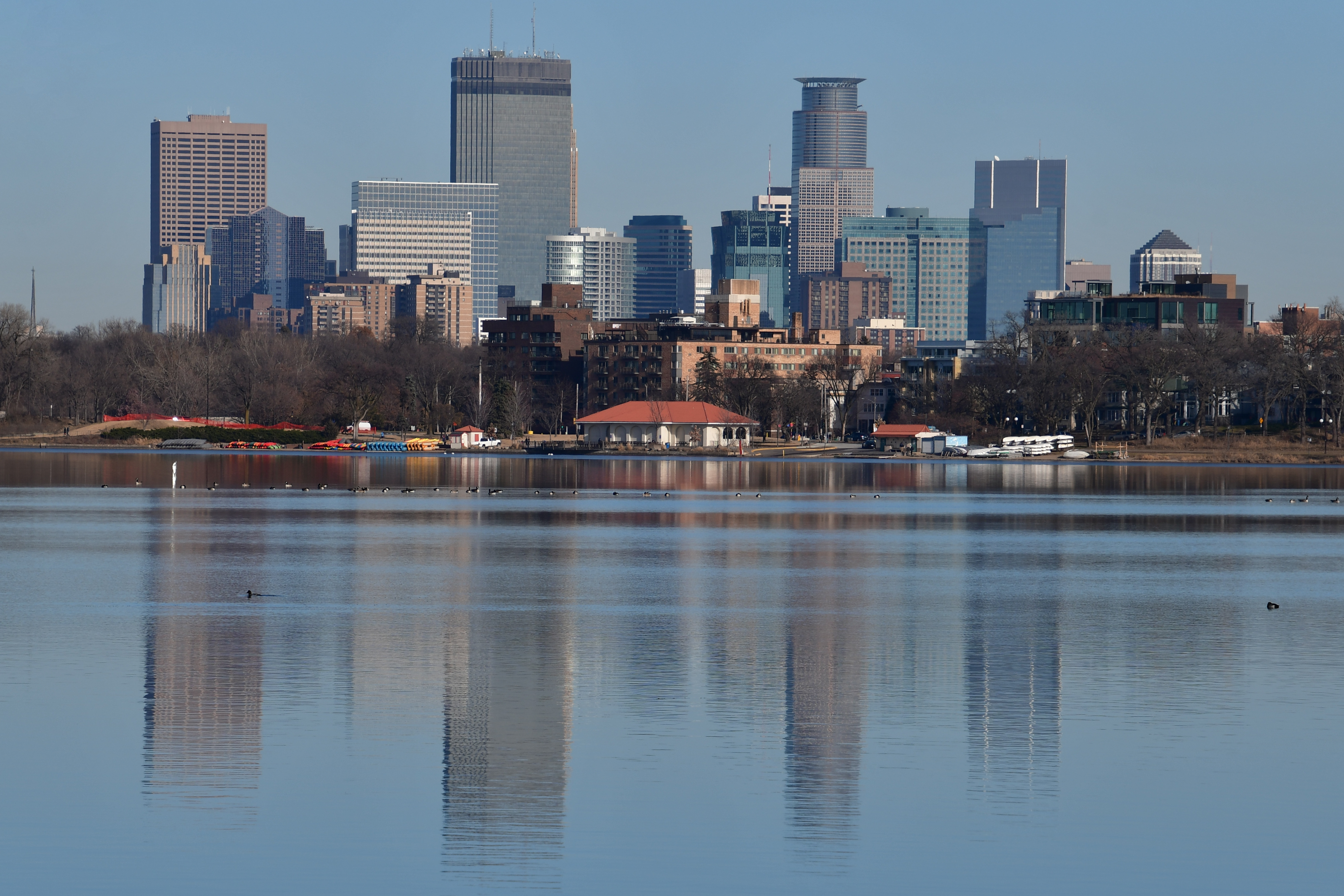 The downtown Minneapolis skyline as viewed behind the refectory at Lake Calhoun.